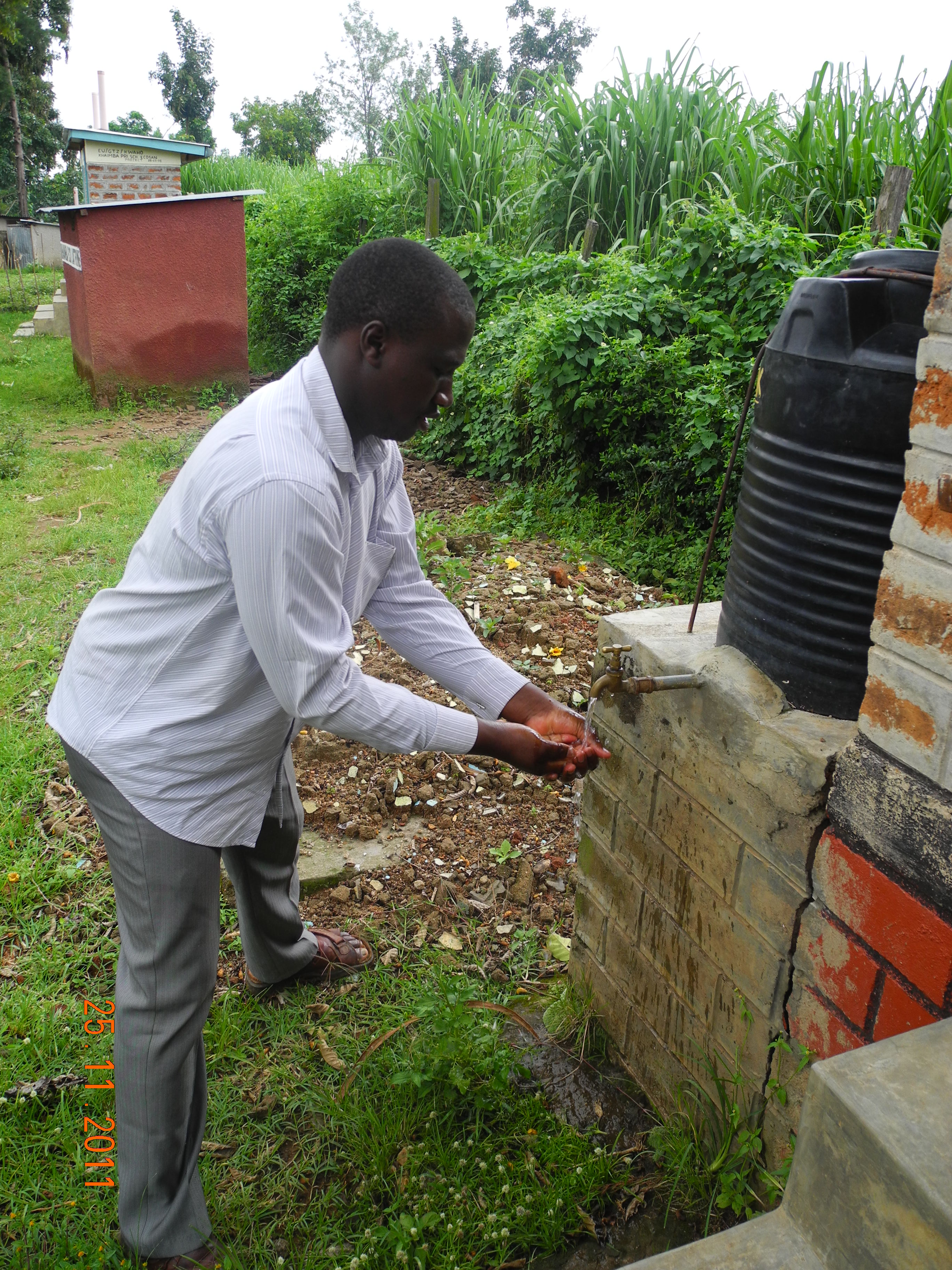 Khaimba Primary School, 25.11.2011.